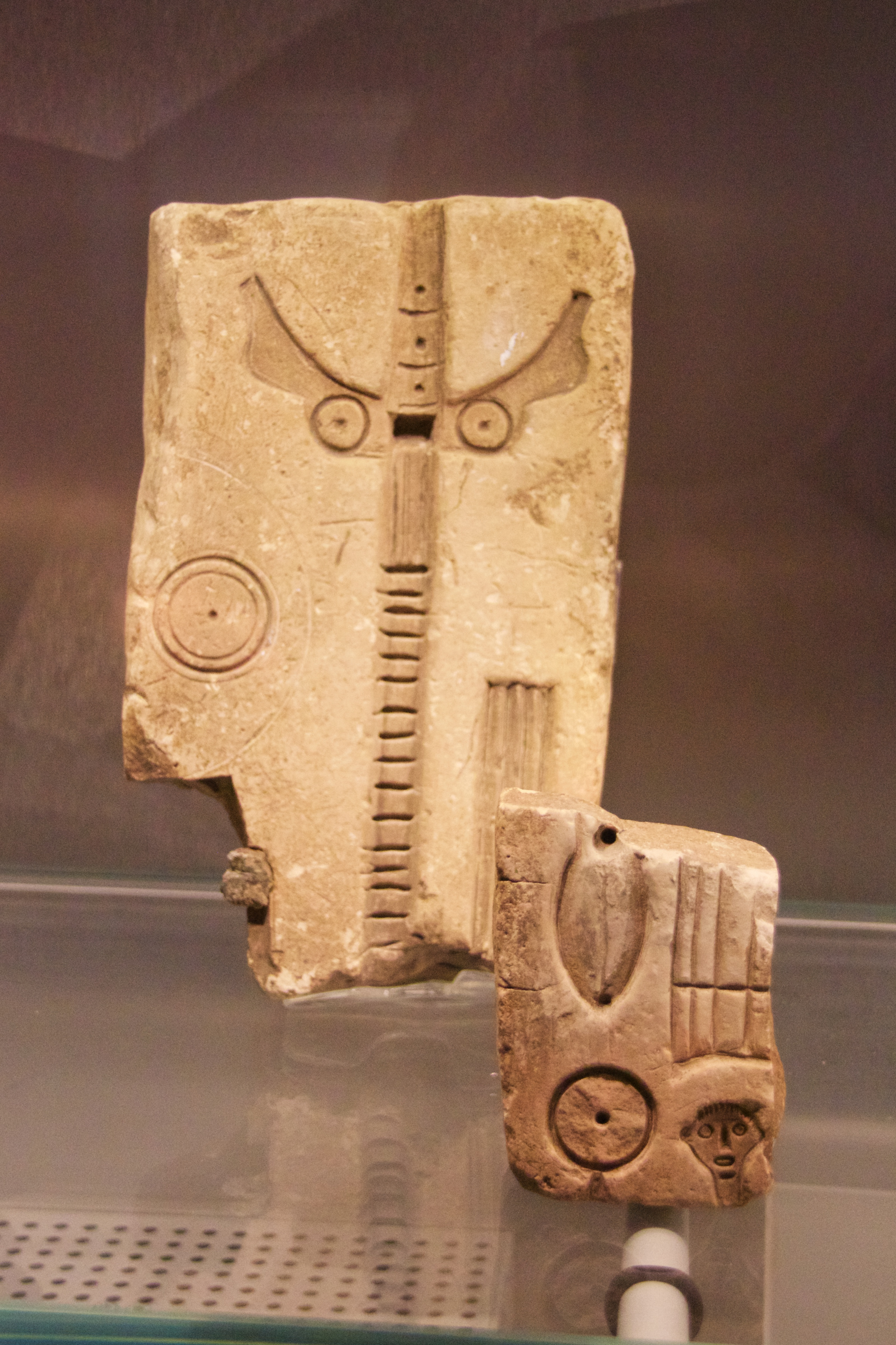 "Pewter-making. Moulds for pewter vessels and souvenirs." Roman baths, Bath, UK